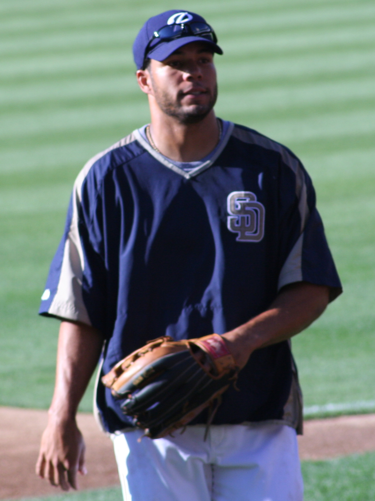 Ben Johnson of the San Diego Padres before a 2006 game at Petco Park